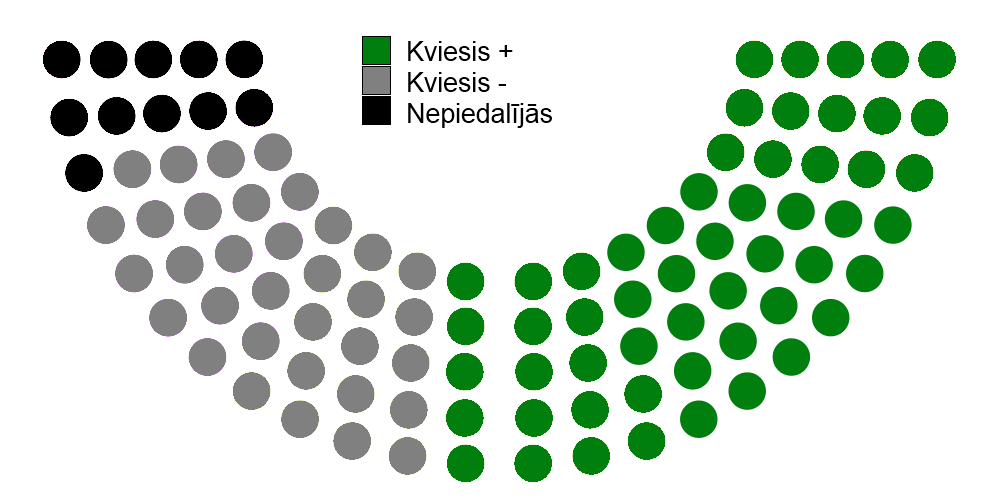 Graph showing the Saeima voting in Latvian presidential election, 1930.